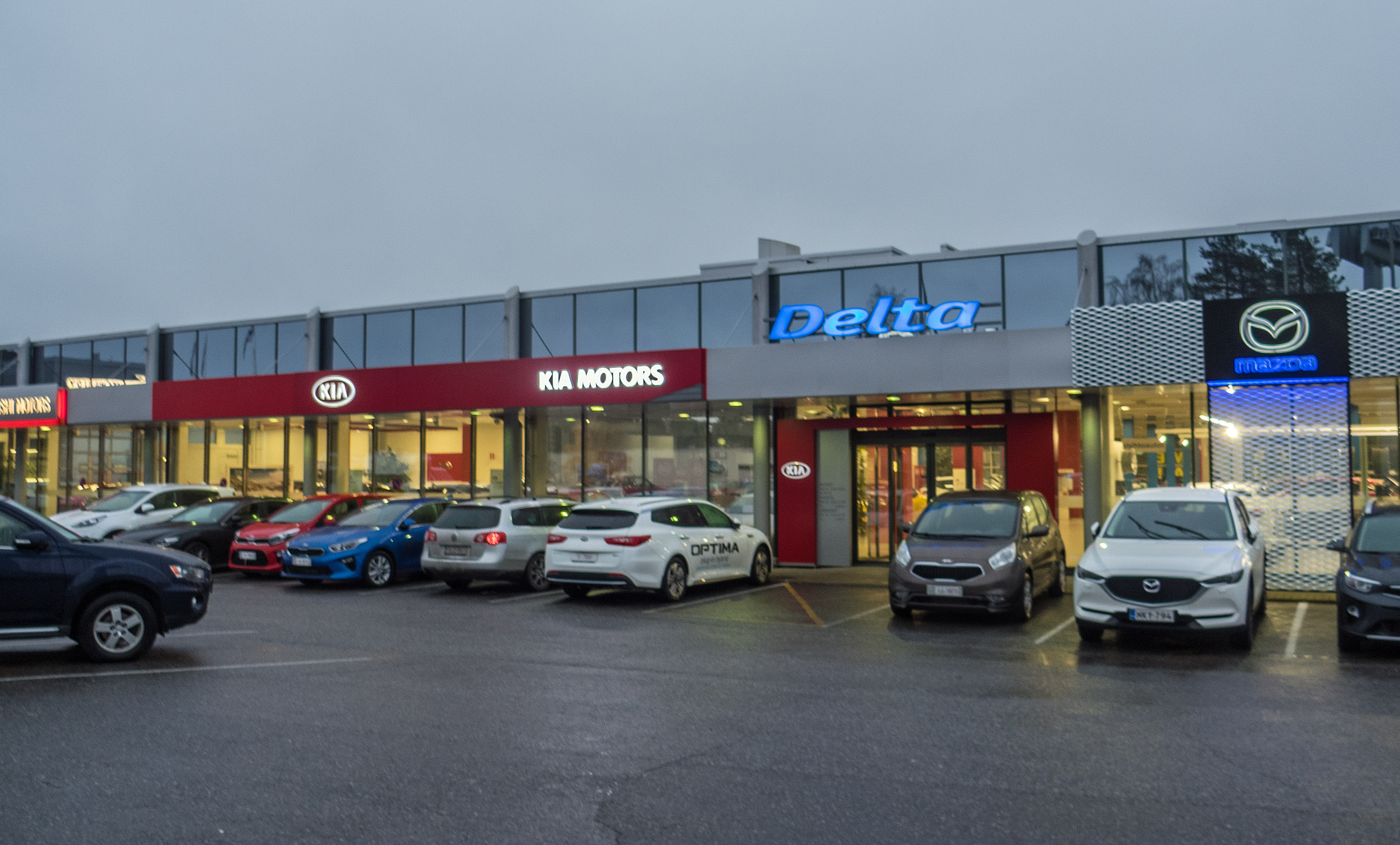 Delta Motor Group Oy car dealership on Rieskalähteentie, Vätti, Turku, Finland. Sells and services Mazda, Mitsubishi and Kia.